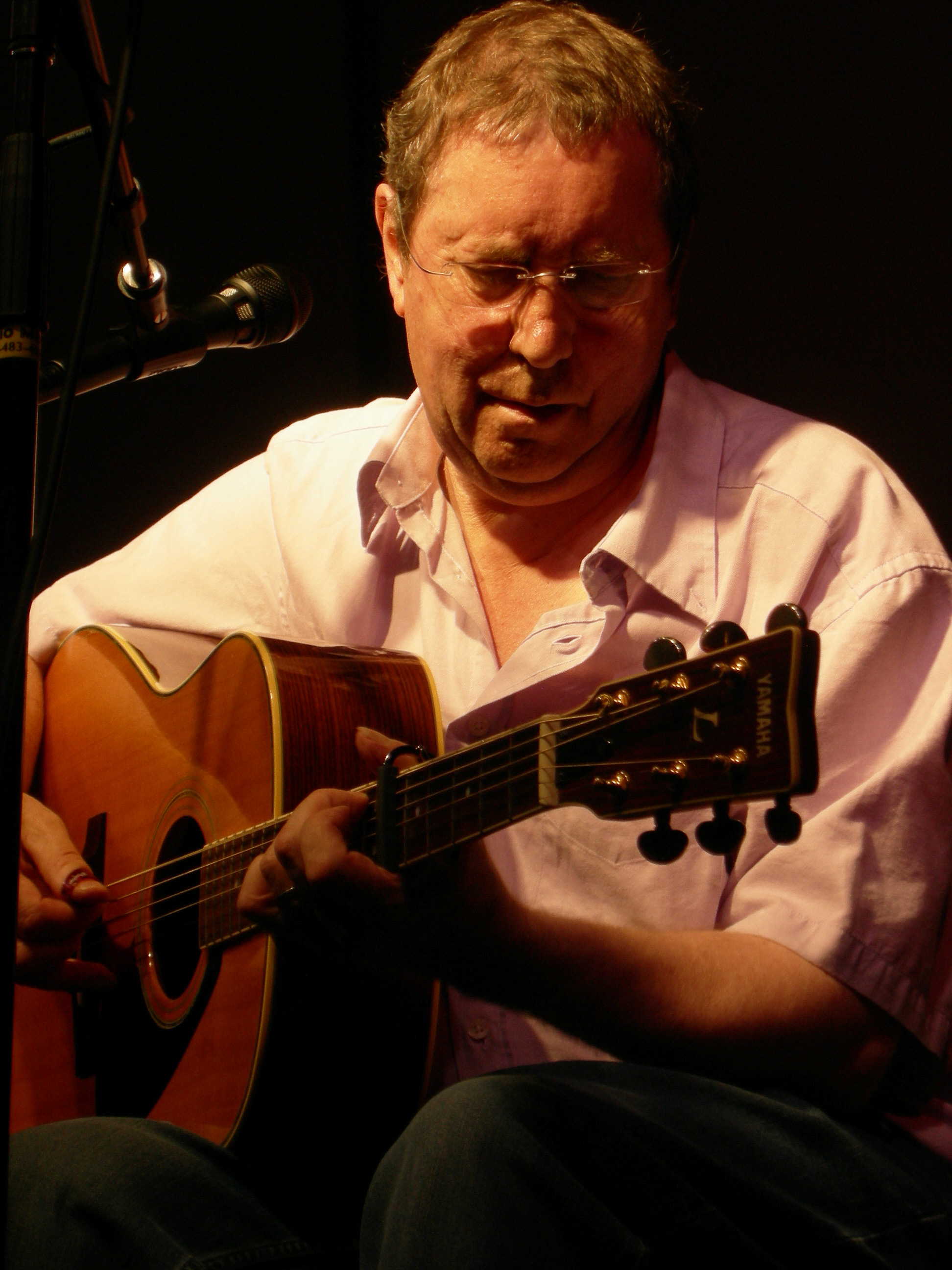 Bert Jansch performs at Bumbershoot, a music and arts festival held every Labor Day weekend at Seattle Center, Seattle, Washington, USA.